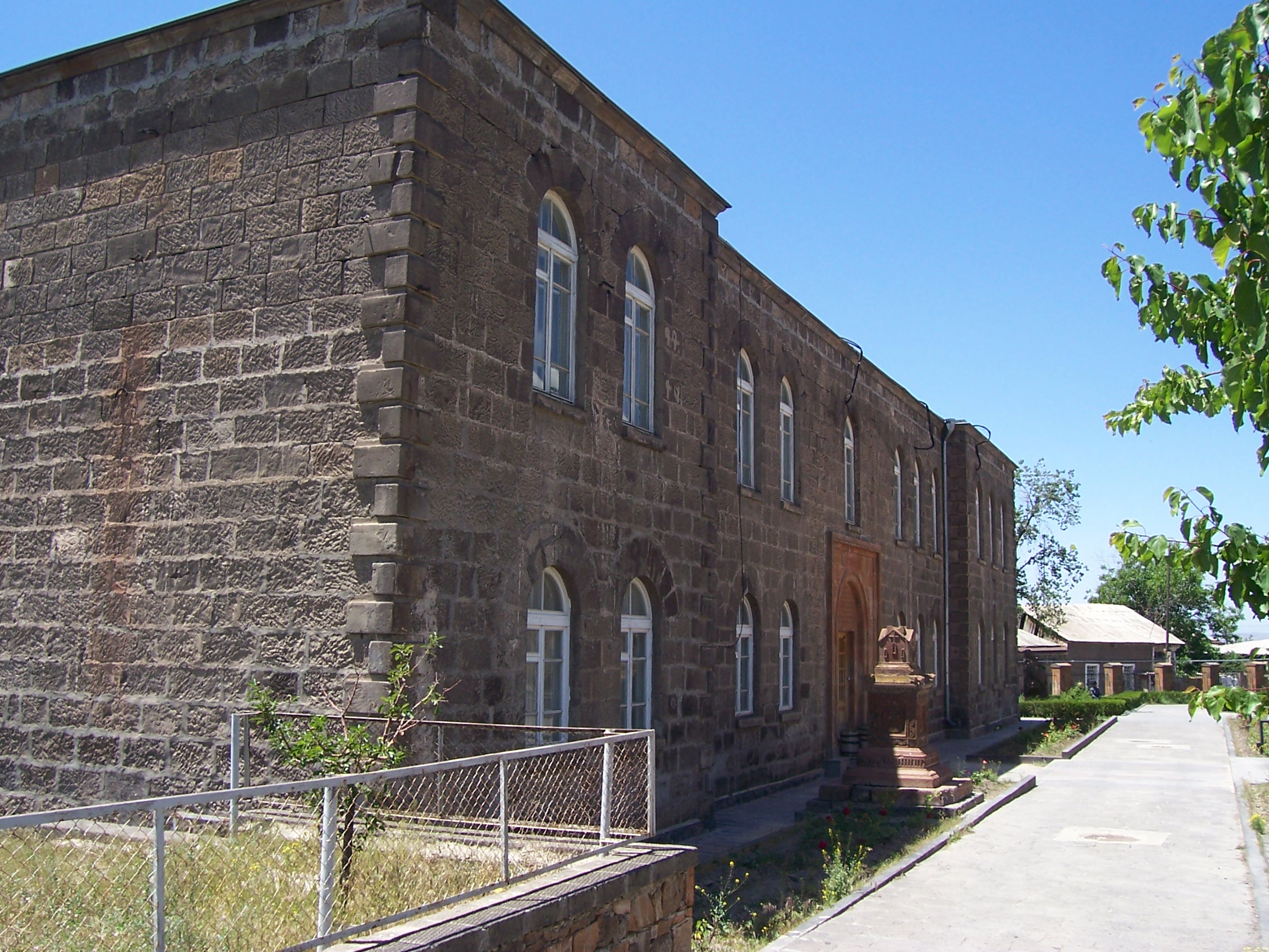 Dpratun Building next to St. Mesrob Mashtots Church in Oshakan.